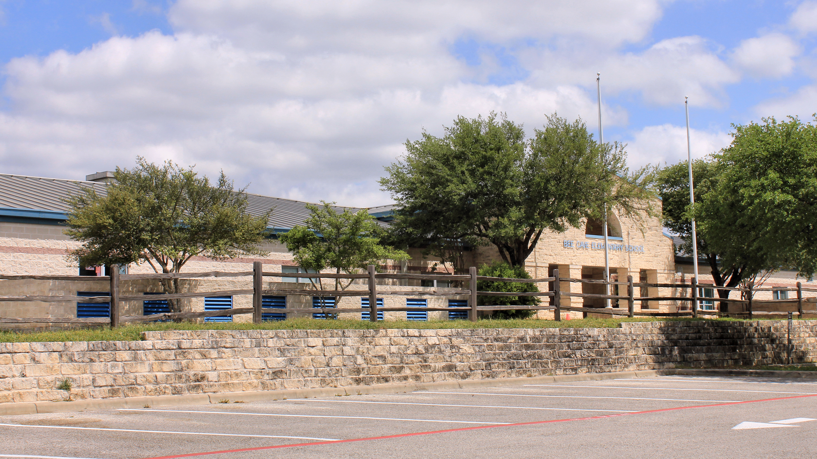 Bee Cave Elementary School in the Lake Travis Independent School District, Bee Cave, Texas, United States.